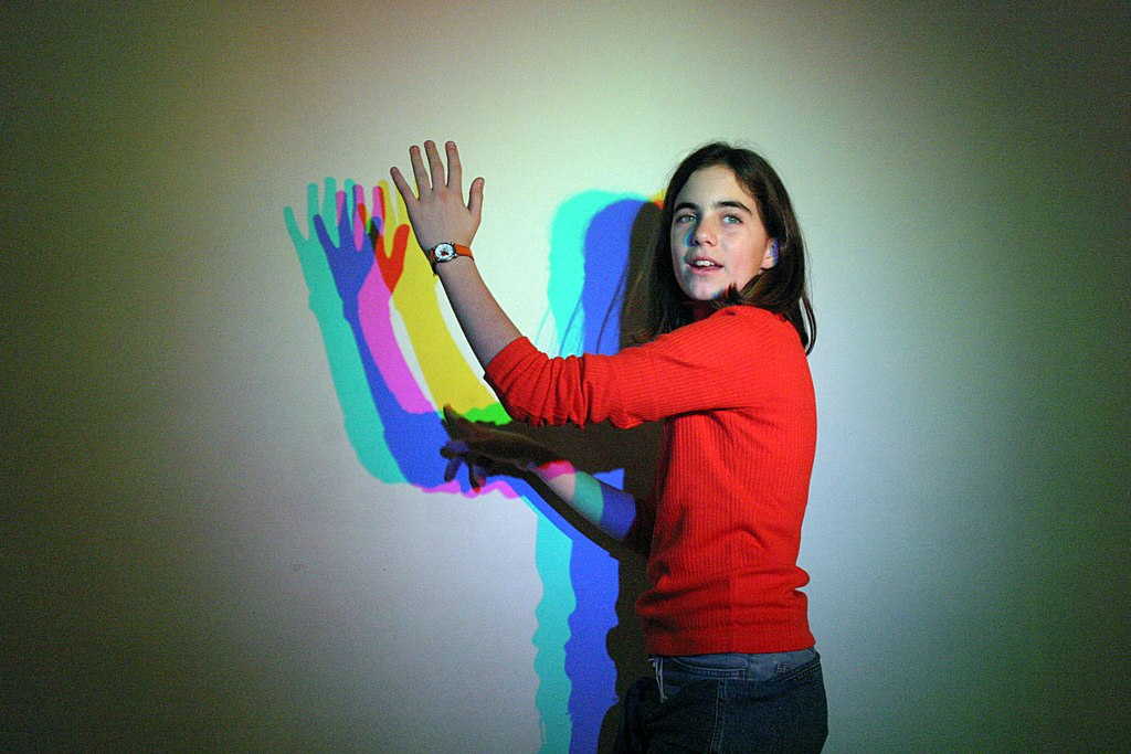 A child (probably a teenager) in red pullover and blue jeans learning about science at a conference. She is being illuminated by three coloured lights: a red, a green and a blue one.This event was part of the 2003 Festival della Scienza, held annually in Genoa, Italy.